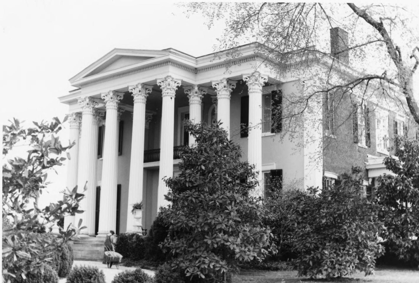 Rattle and Snap, Columbia (Maury County, Tennessee) cropped George W. Polk was the builder. This image or media file contains material based on a work of a National Park Service employee, created as part of that person's official duties. As a work of the U.S. federal government, such work is in the public domain in the United States. See the NPS website and NPS copyright policy for more information.